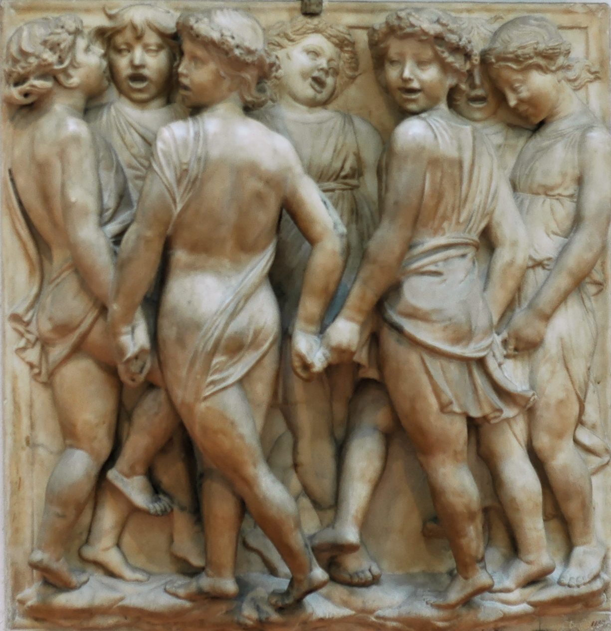 Boys singing, illustration of Psalm 150 (Laudate Dominum). Panel decorating the cantoria (singers' gallery), actually a balcony for the 1438' organ of the Duomo. Museo dell'Opera del Duomo, Florence, Italy. Marble.